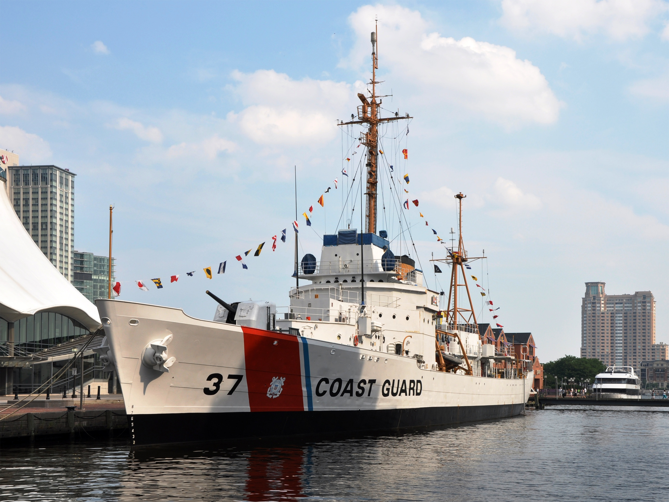 USCGC Taney (WHEC-37) docked at the Inner Harbor as a museum ship in Baltimore, USA.